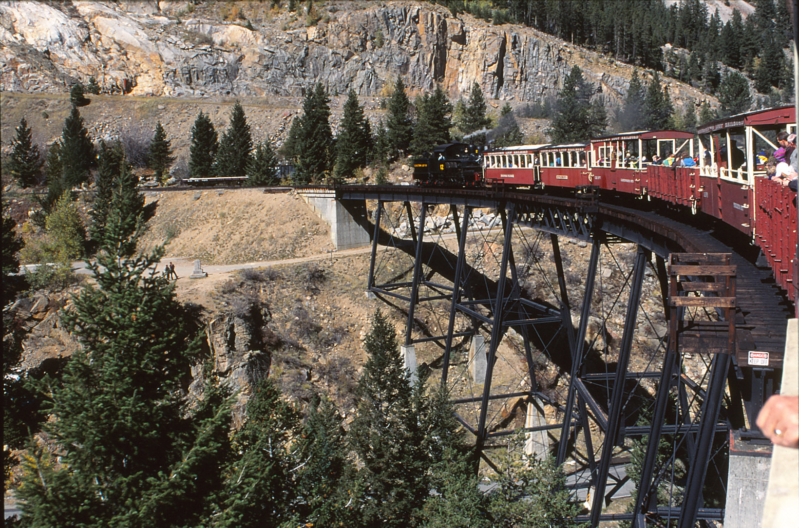 Georgetown Loop Railroad 1996